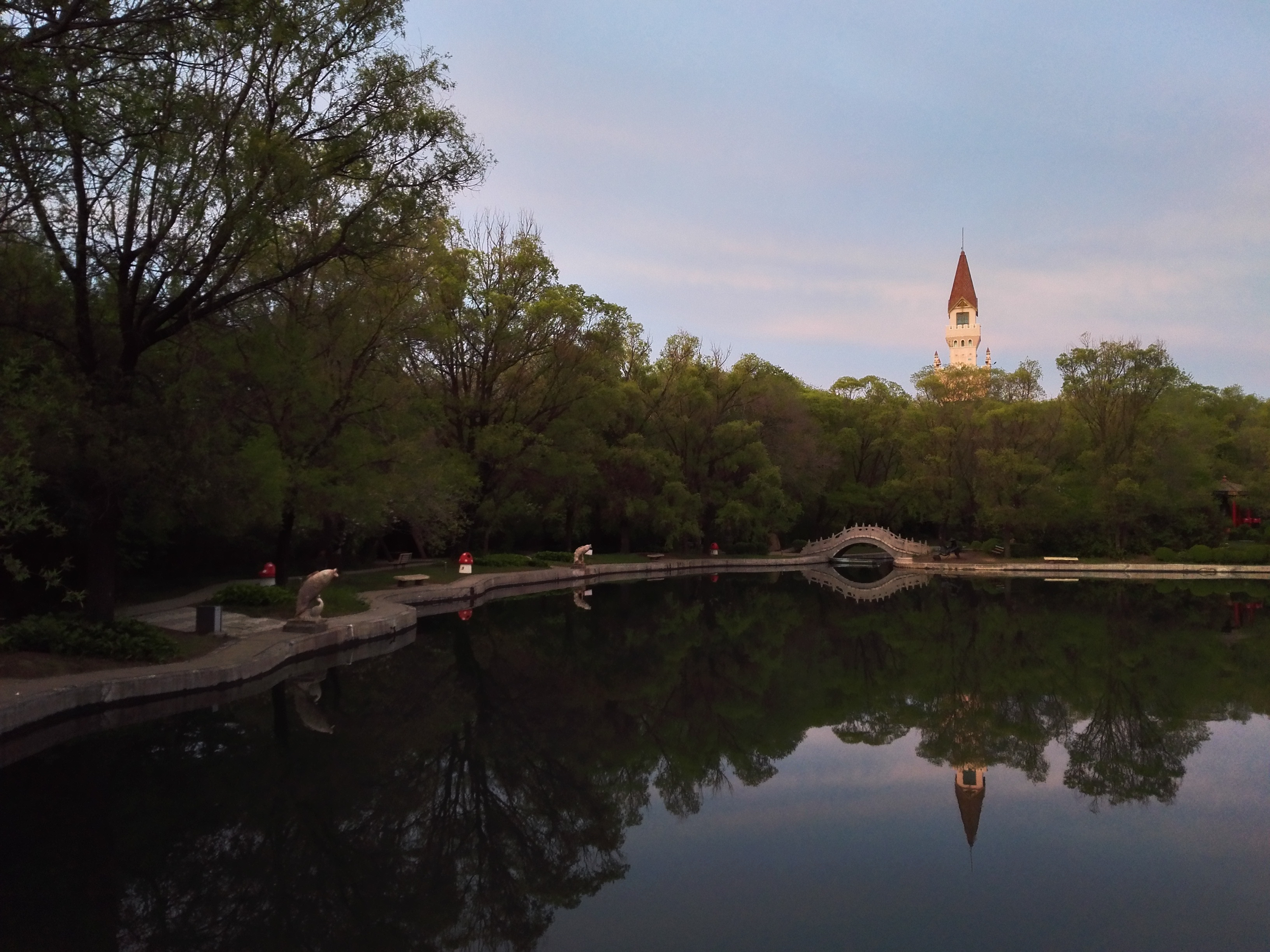 Heilongjiang Forest Botanical Garden(also Harbin National Forest Park), located in Harbin's Haping Road.